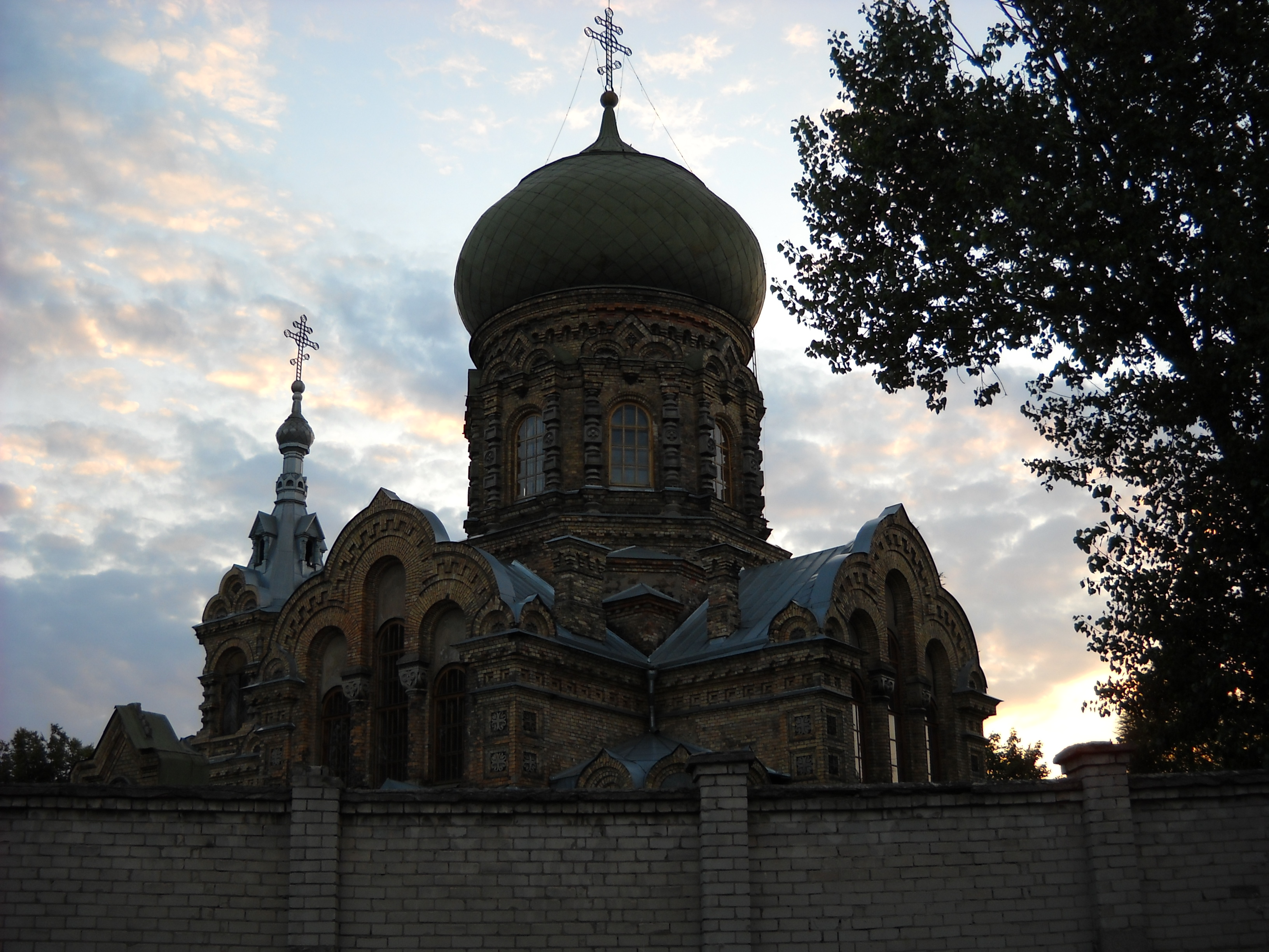 Orthodox church of St. Alexandre Nevsky in Vilnius